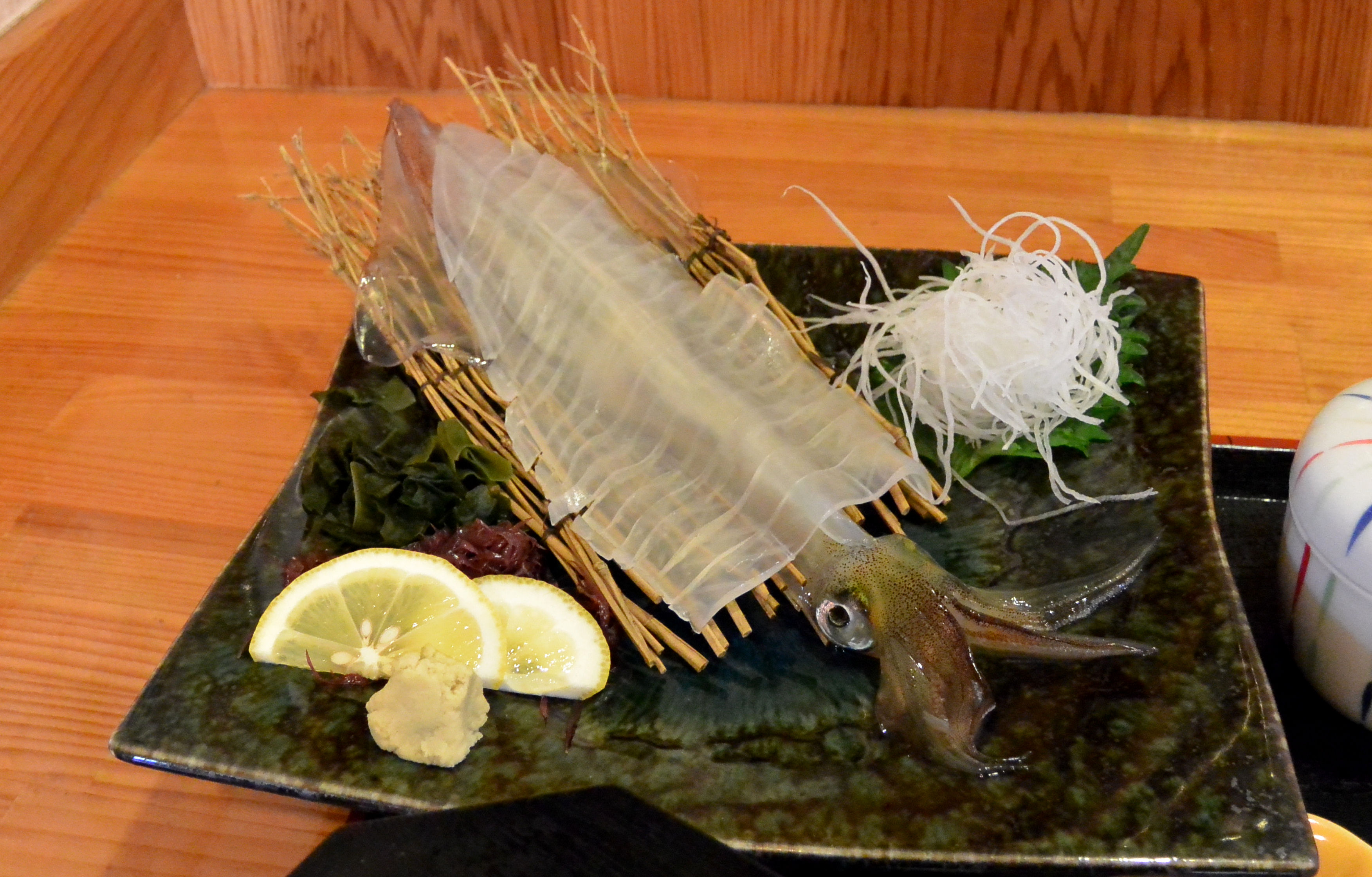 Squid sashimi, this squid had lived in big water-tank just before cutting